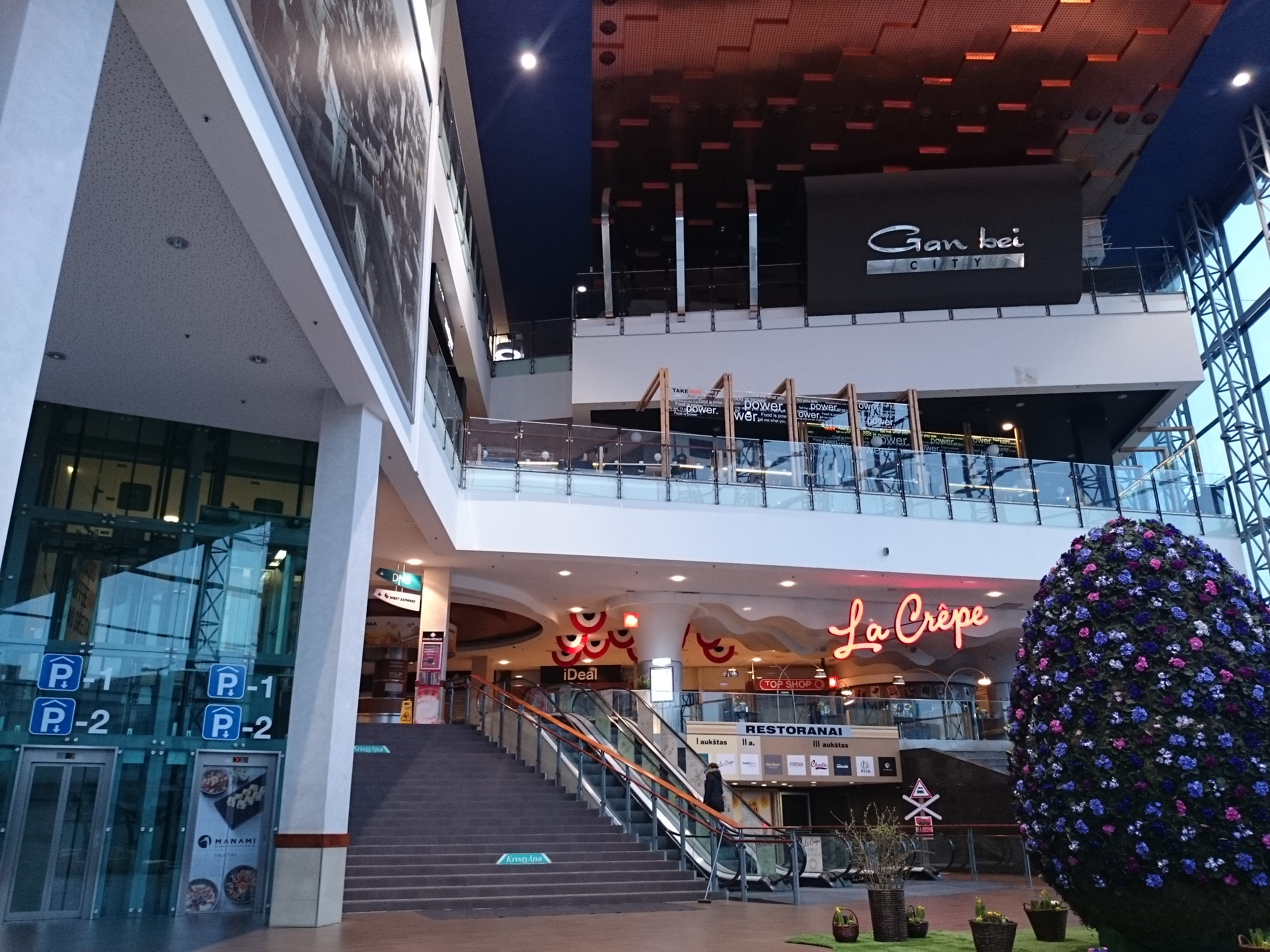 Vilnius